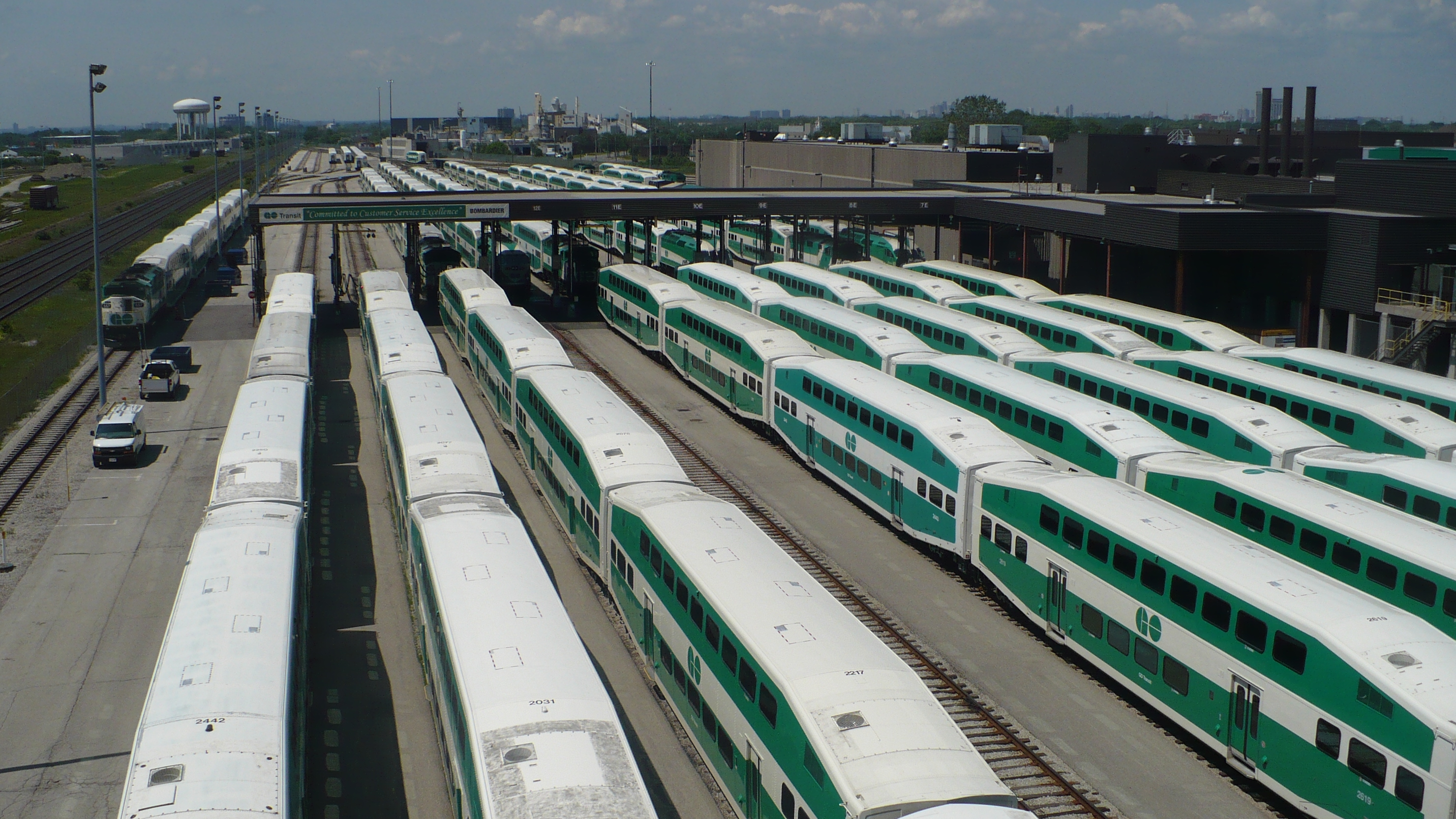 Willowbrook maintenance facility of GO Transit in Mimico